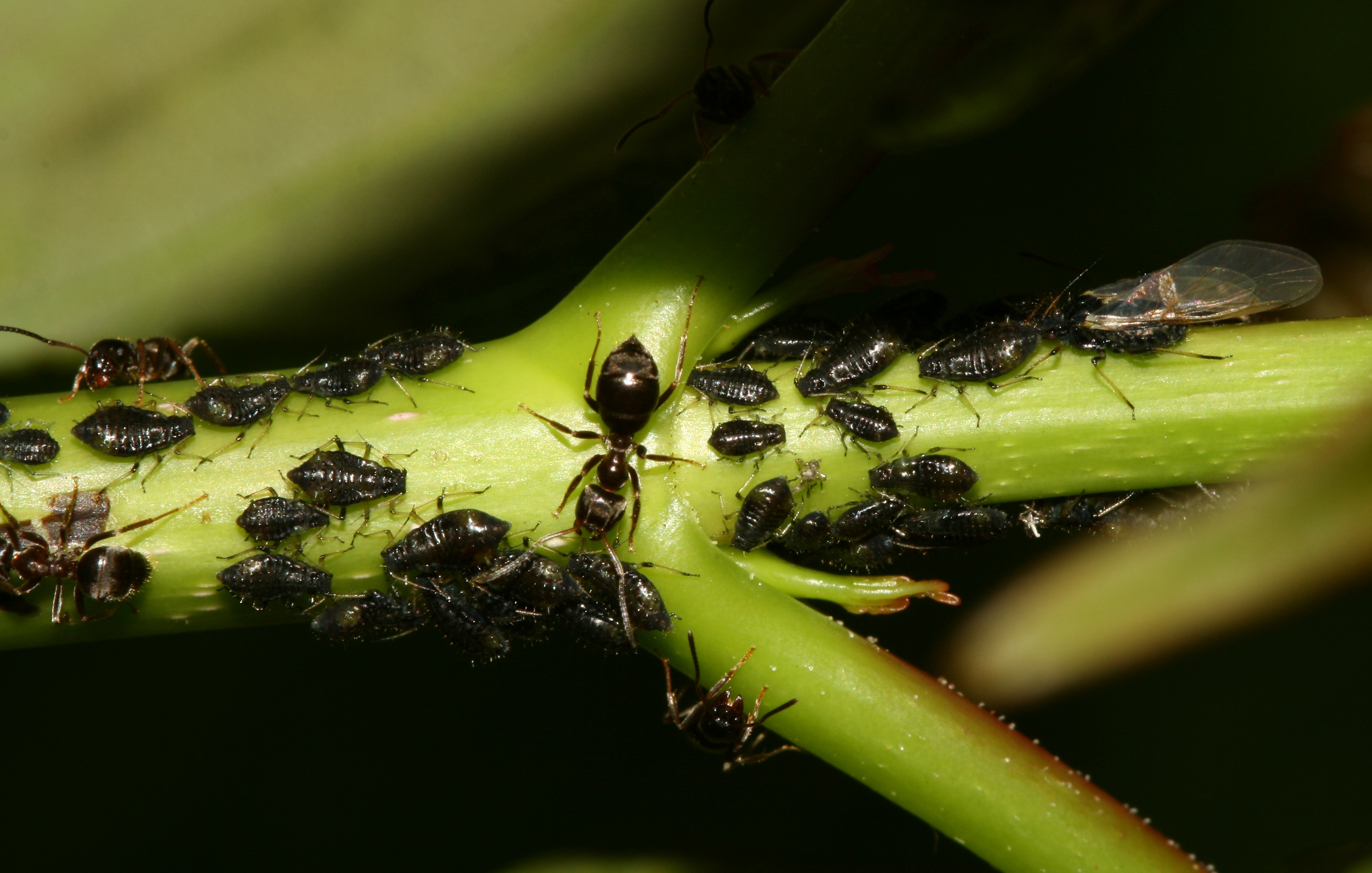 Periphyllus sp. aphids on sycamore